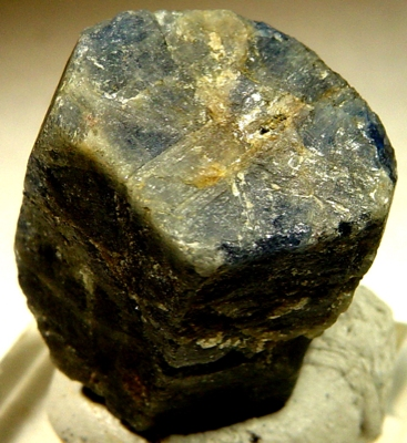 Corundum Locality: Miass (Miask), Ilmen Mts, Chelyabinsk Oblast', Southern Urals, Urals Region, Russia (Locality at ) A big, stereotypical Russian corundum (sapphire) crystal, complete all the way around and terminated. Really good for Russia! 3.5 x 2.9 x 2.3 cm